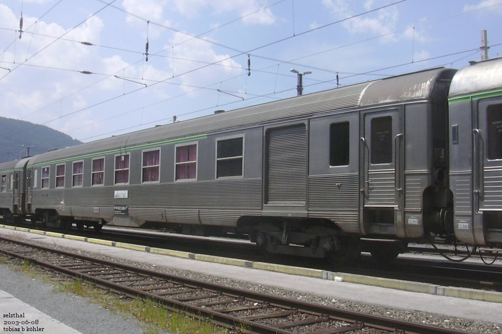 Passenger car 51 85 02-71 006-5 (ex SNCF B6½Dtj) of the club 1020 042-6. Four of these cars were built (originally as A7Dtj), the only half-luggage cars of the SNCF with open seating, two are surviving. Part of the luggage room has been converted to an information counter. Photo taken during the steam festival of Selzthal, 2003-06-08.